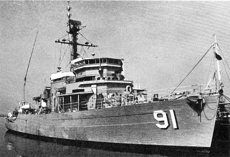 Davao del Norte (PM 91) ex USS Energy (MSO 436)